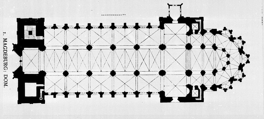 Magdeburger Dom plan From: The Study-Book Of Mediaeval Architecture And Art: Being A Series of Working Drawings Of The Principal Monuments Of The Middle Ages, Volume III, Figure 22, London, Henry Sotheran, 1868